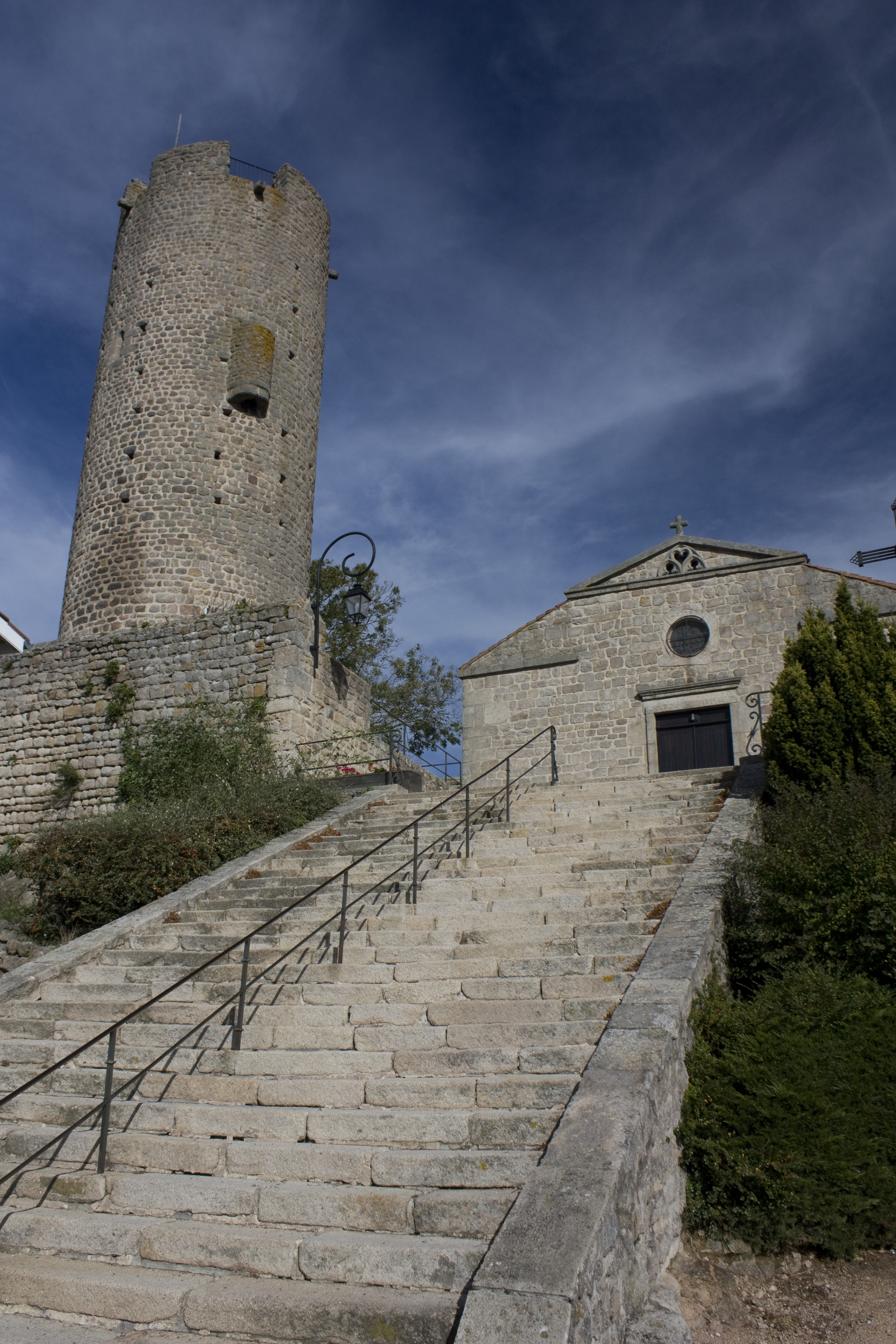 Medieval tower (XI) s. The staircase to the front of the church was added in the seventeenth century.